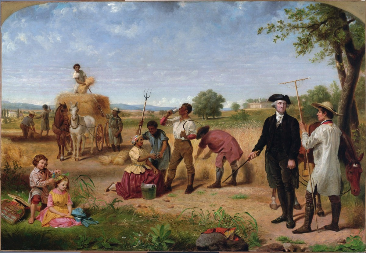 "Washington as Farmer at Mount Vernon", 1851, part of a series on George Washington by Junius Brutus Stearns. Located at the Virginia Museum of Fine Arts.